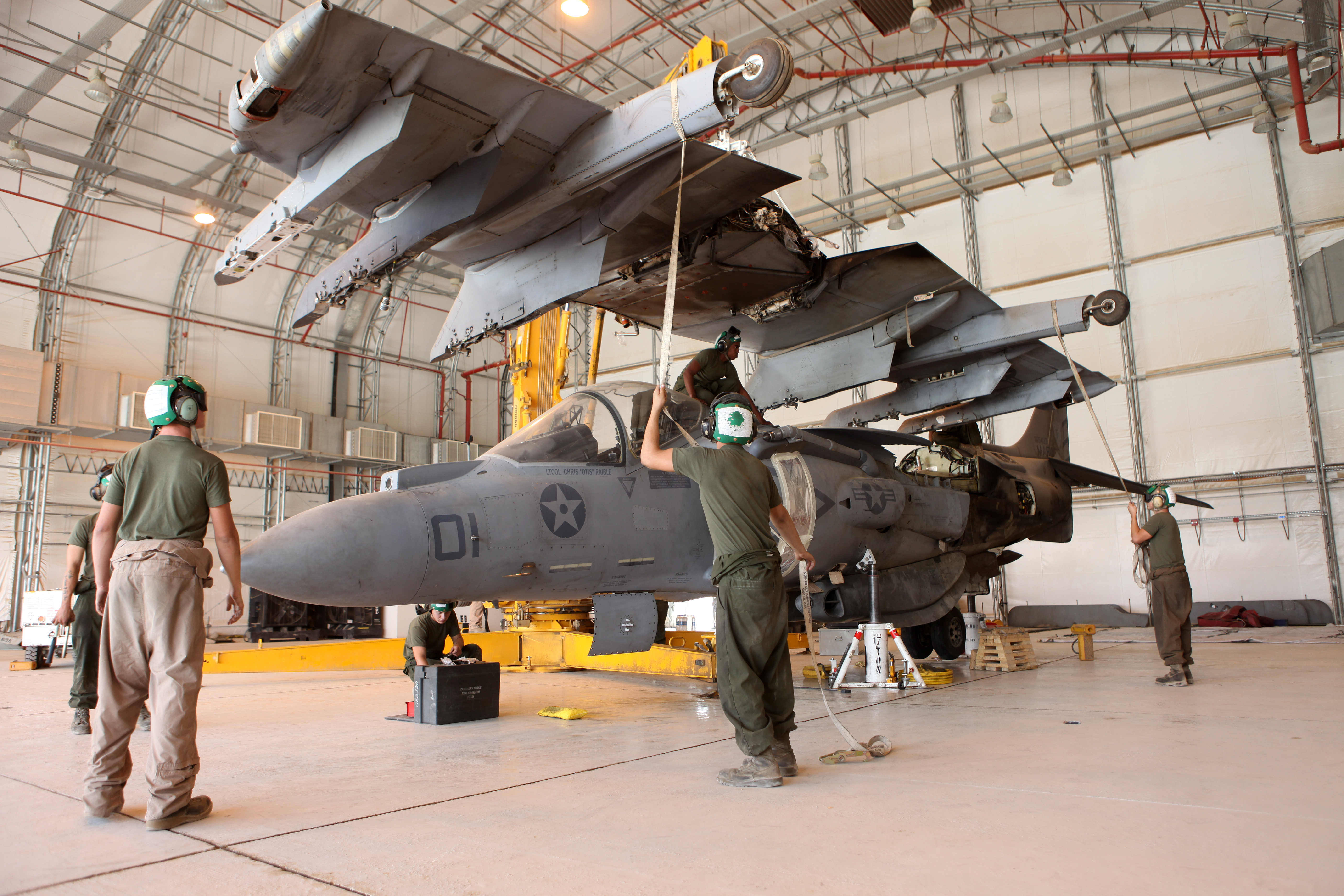 U.S. Marines assigned to Marine Attack Squadron 211 (VMA-211), Marine Aircraft Group 13, 3rd Marine Aircraft Wing (Forward), replace the wings of an AV-8B Harrier at Camp Bastion, Helmand province, Afghanistan Sept. 1, 2012. Marines conducted routine maintenance to ensure aviation readiness. Read more